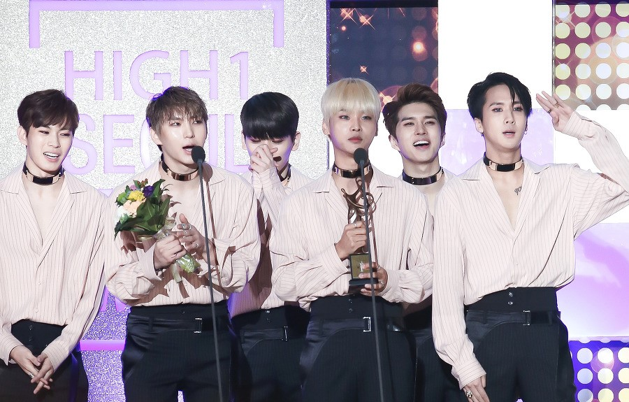 VIXX at 25th Seoul Music Awards, on January 14, 2016.